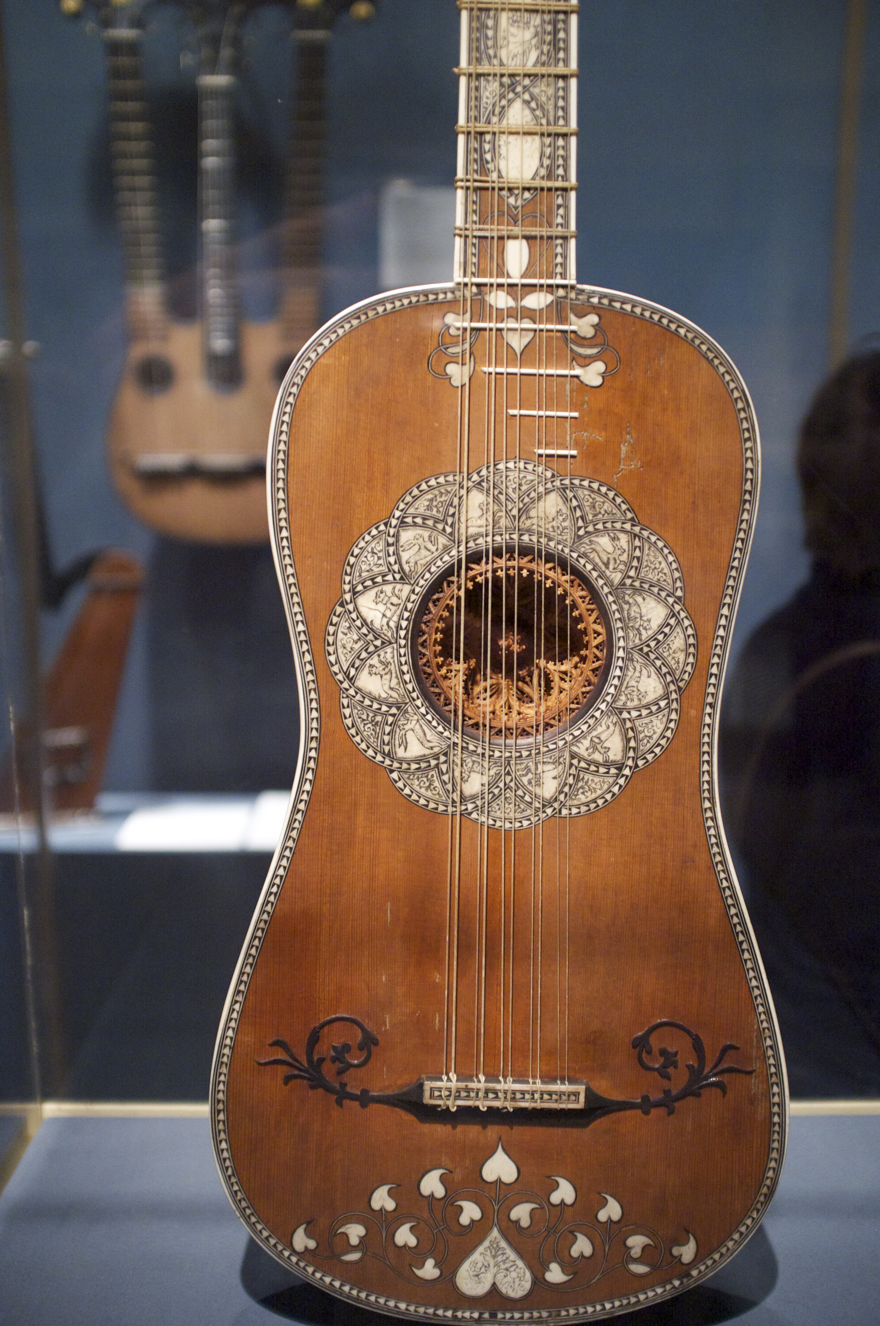 Baroque guitar (ca.1630-50), Matteo Sellas, The Met, NYC.jpg Guitar Attributed to Matteo Sellas (German, Füssen ca. 1599–1654 Venice) Accession Number:1990.103 Date: ca. 1630–50 Geography: Venice, Italy Medium: Spruce, bone, parchment, snakewood, ivory Dimensions: Label: 26.9 x 95.6cm (10 9/16 x 37 5/8in.) Classification: Chordophone-Lute Credit Line: Purchase, Clara Mertens Bequest, in memory of André Mertens, 1990 This artwork is currently on display in Gallery 684